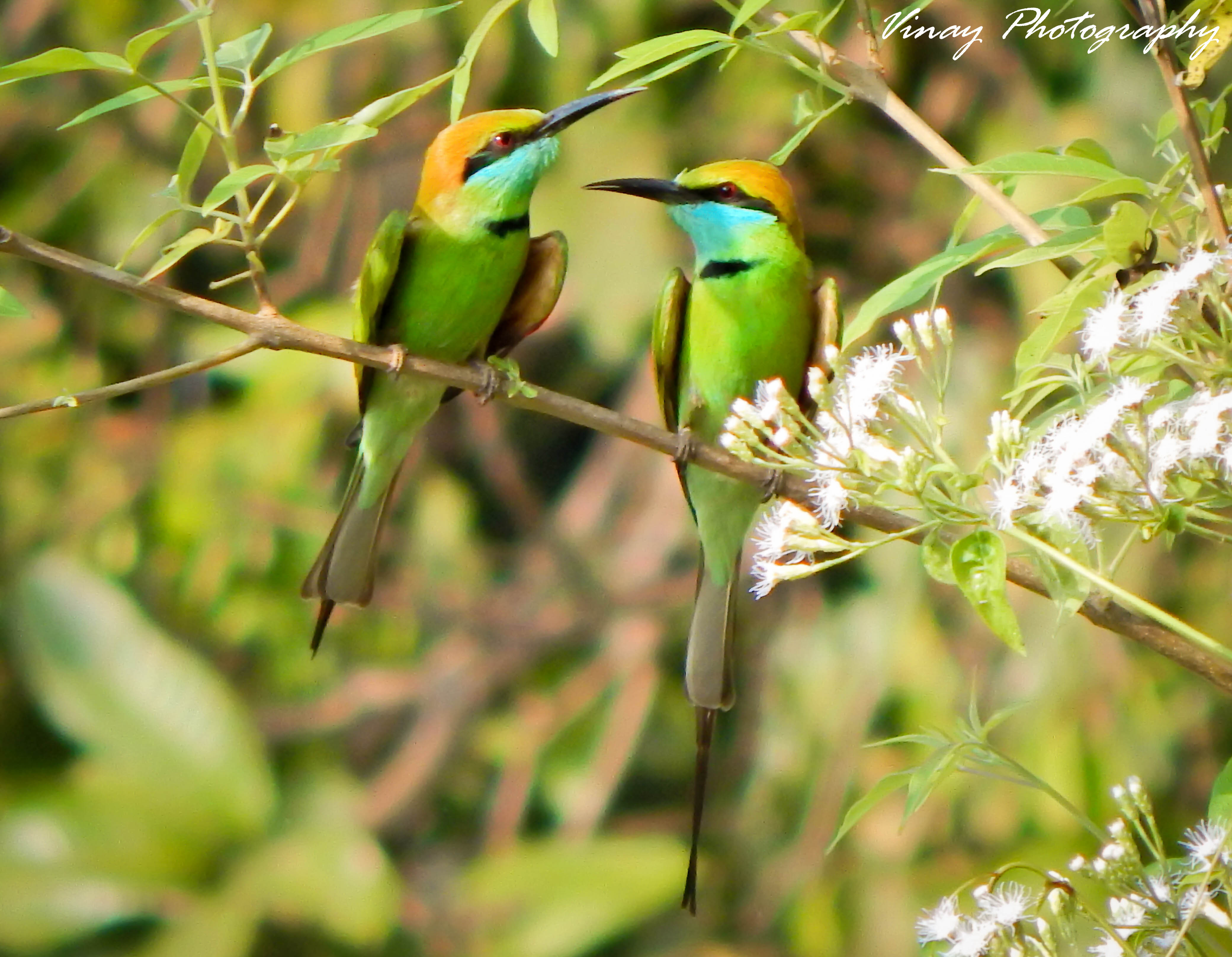 Pair of small green bee eater found in Honavar, karnataka,India